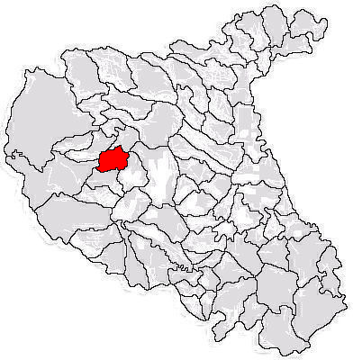 Map of limits of commune in Vrancea County